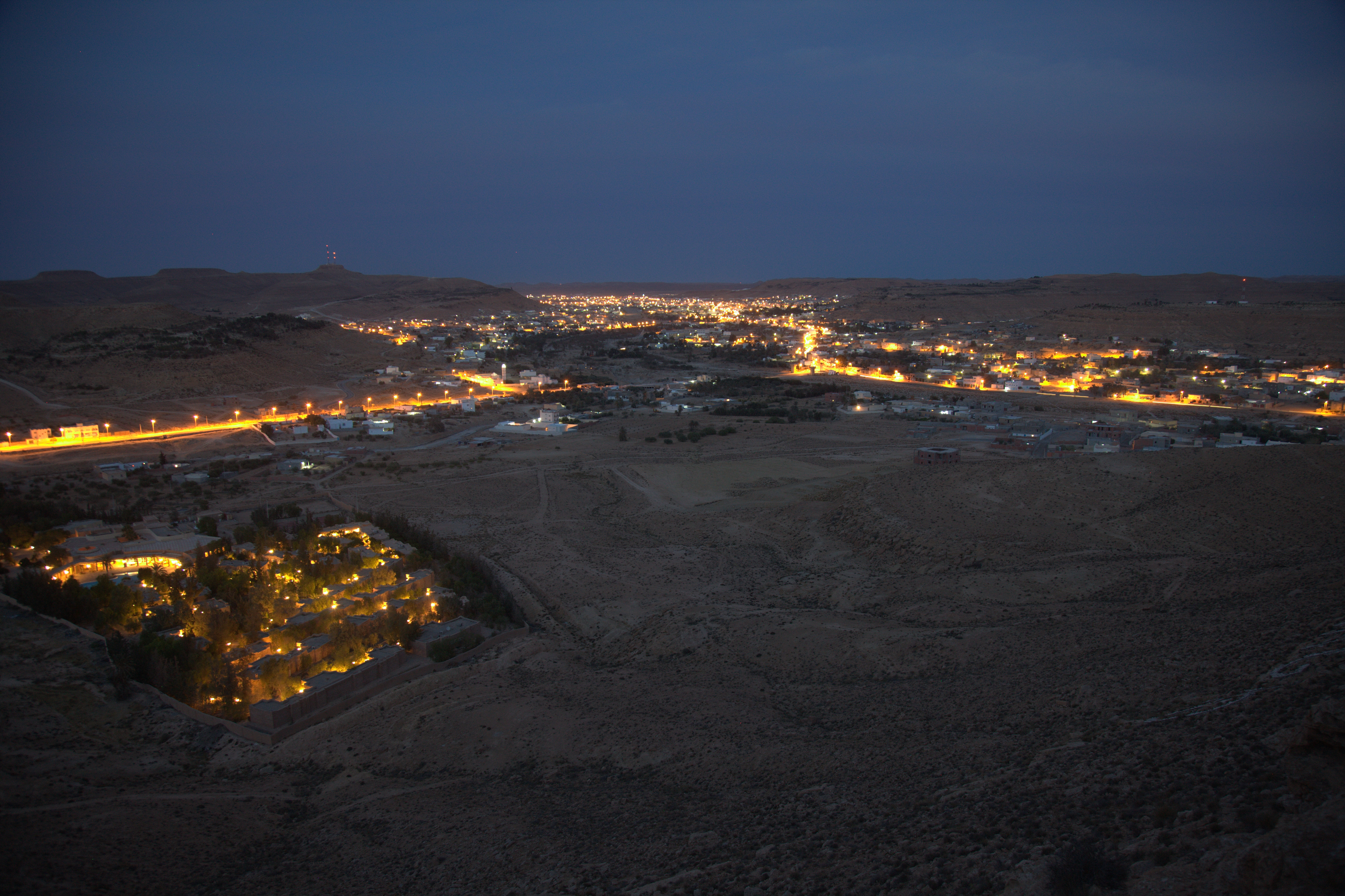 View from the hill above hotel Sangho towards Tataouine city center under full moon.